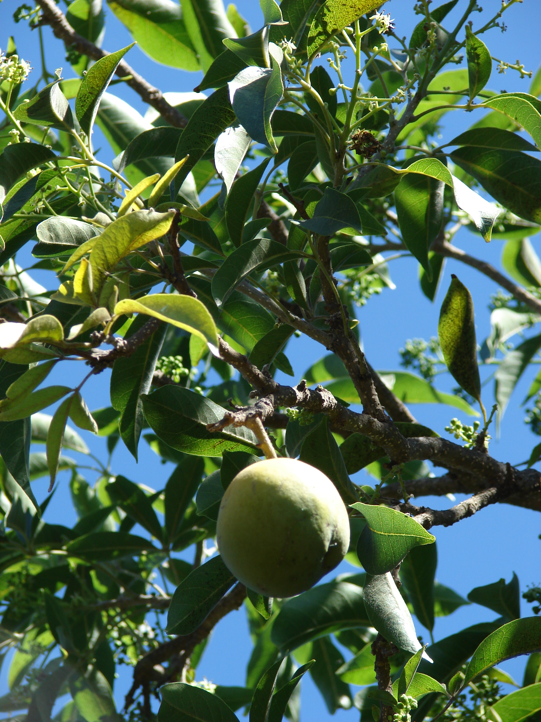 Casimiroa edulis (fruit). Location: Maui, Enchanting Floral Gardens of Kula